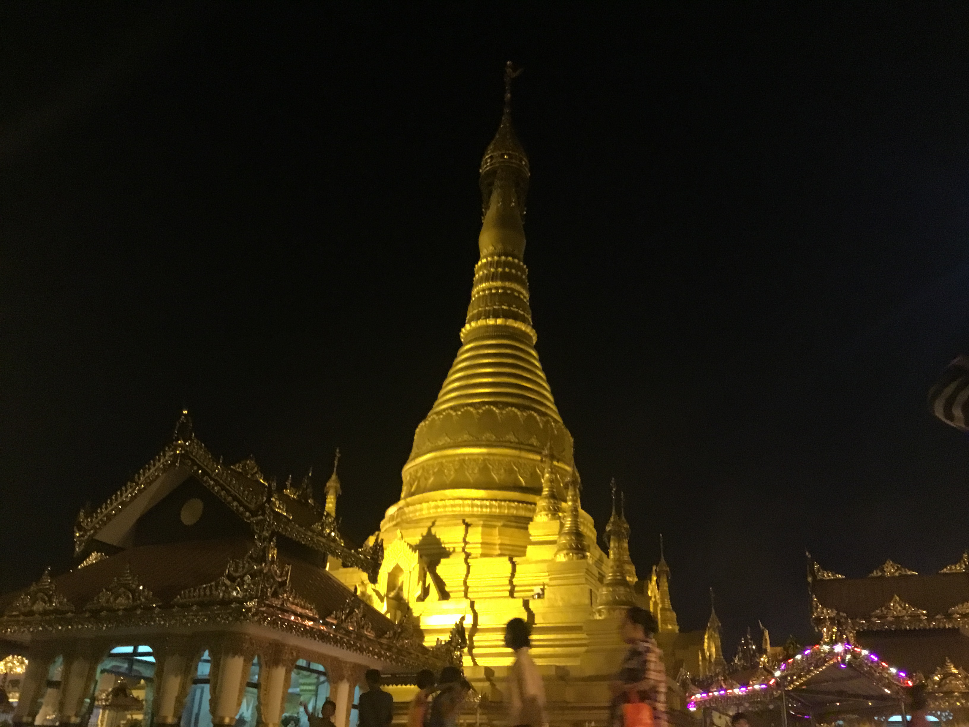 ရန်အောင်မြင်ရွှေလက်လှစေတီ